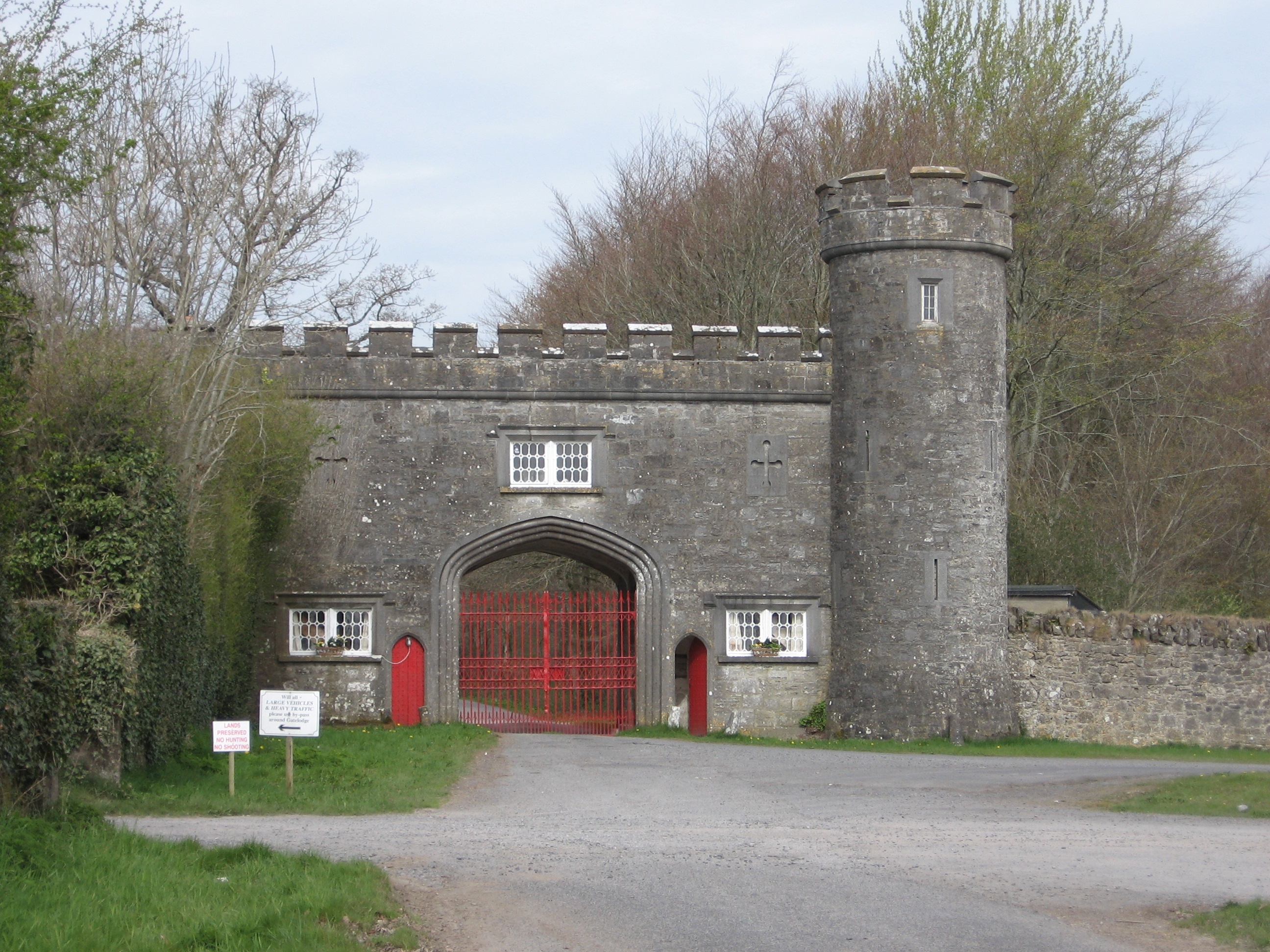 Gate Lodge at Tullynally Castle, Castlepollard, Co. Westmeath, Ireland; designed by architect James Shiel, c. 1820